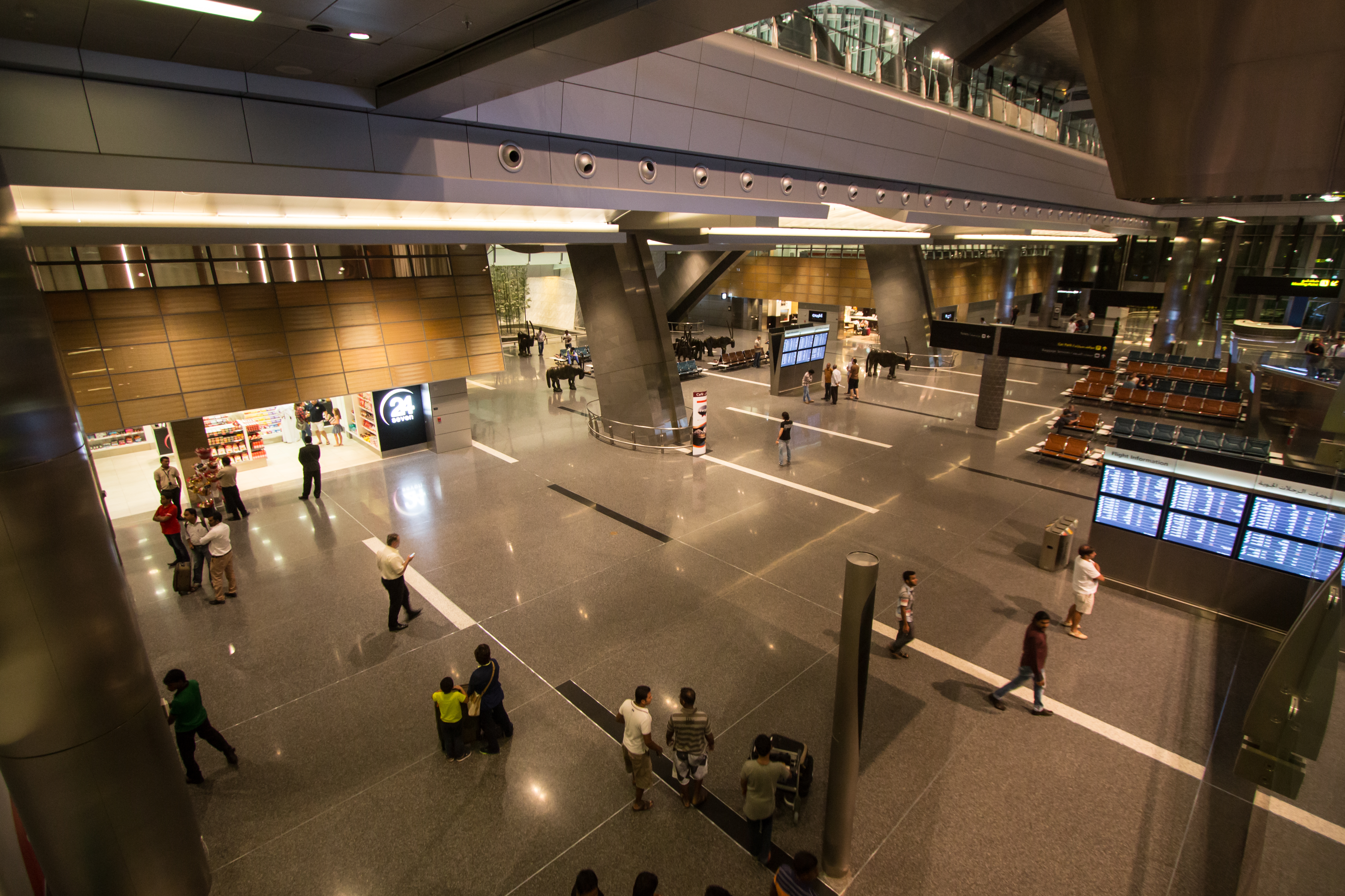 Hamad International Airport